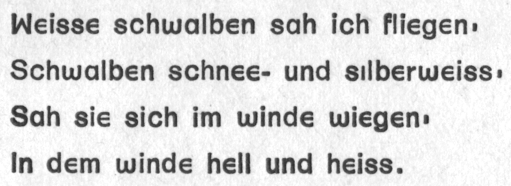 Scan from Print